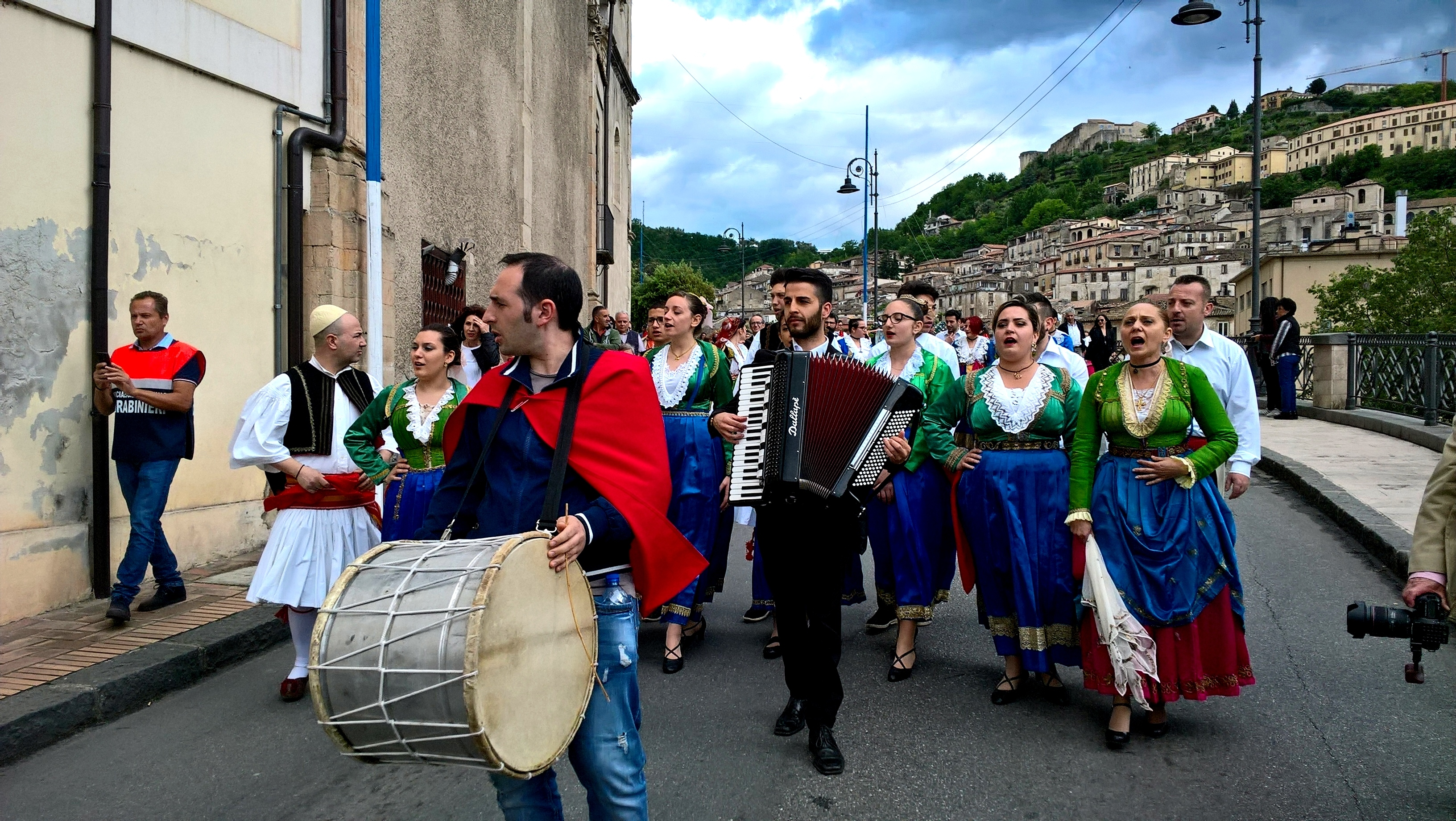 Arbëreshë costume from San Benedetto Ullano, Cosenza, Calabria during the Bukuria Arbëreshë in Cosenza, Calabria 2017